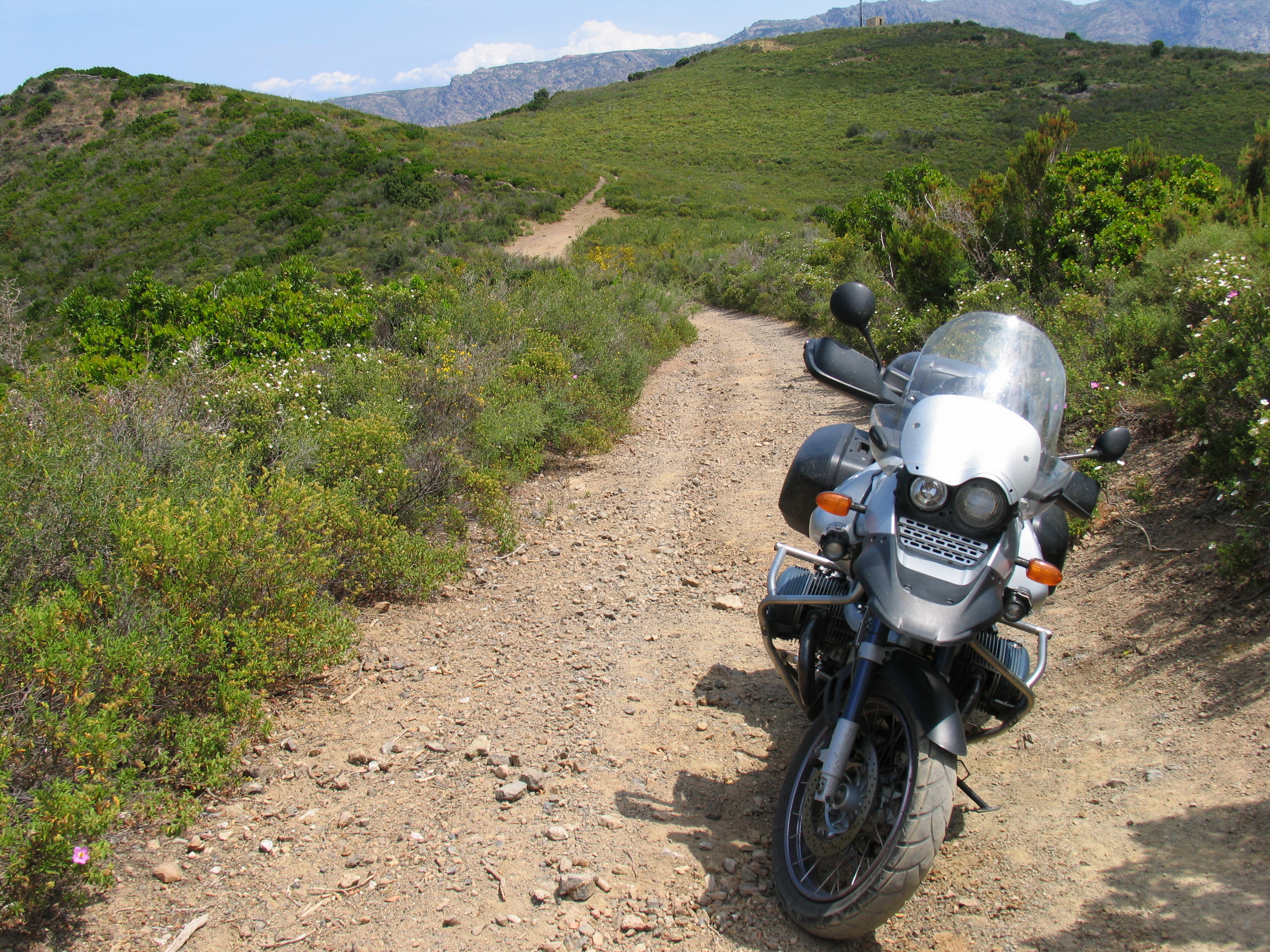 A BMW R1150GS on a trail in Corsica